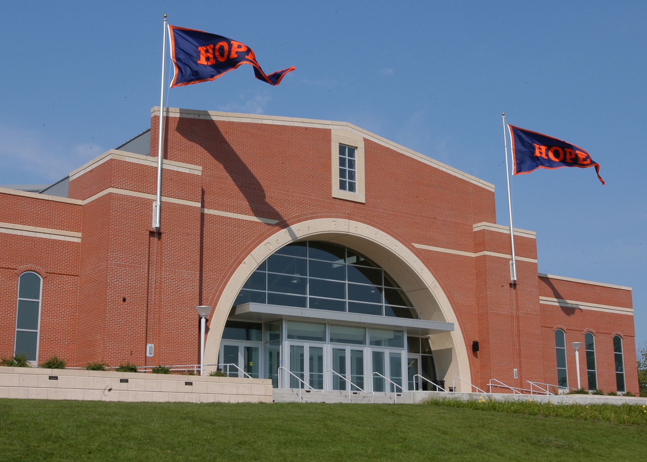 DeVos Field House - Hope College Campus